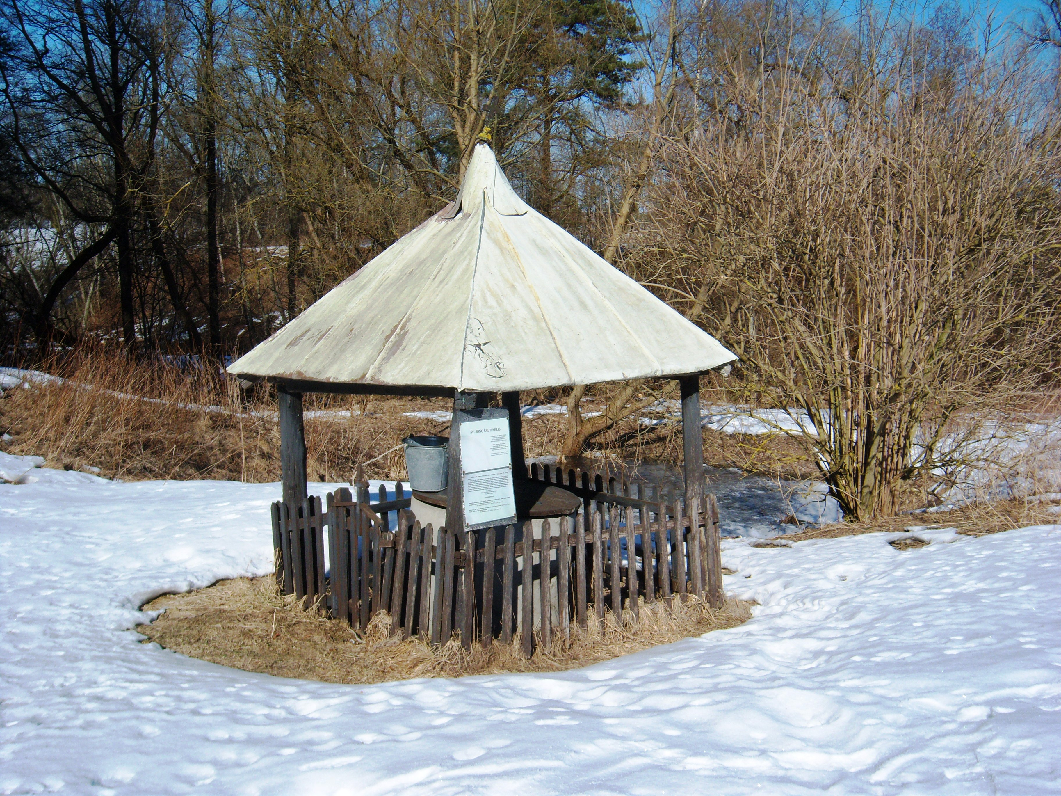 St. John's spring, Paštuva, Kaunas district, Lithuania